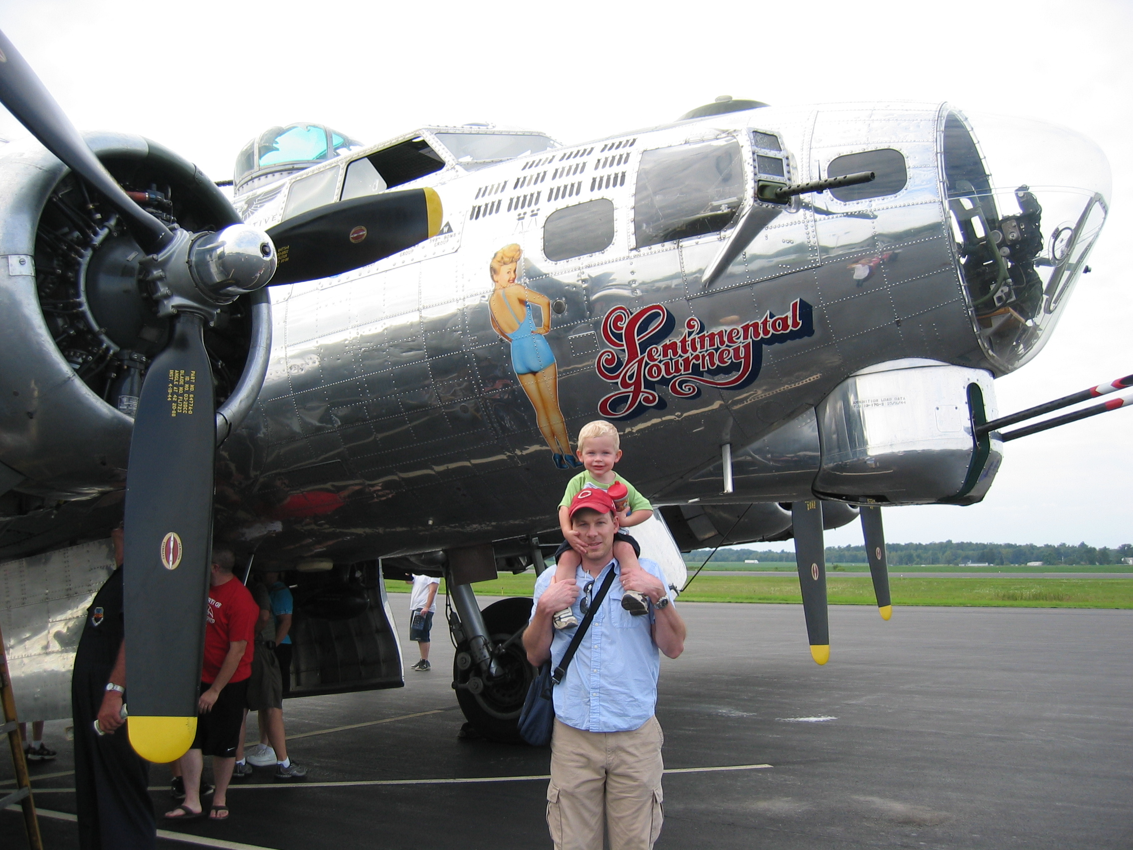 Nose Art on the B-17 Flying Fortress Sentimental Journey